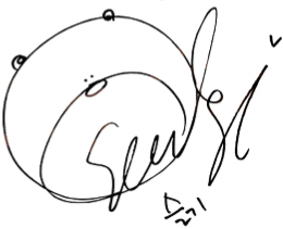 Seulgi signature